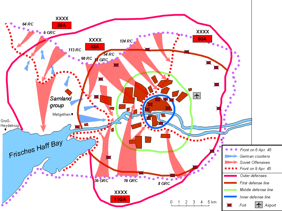 1945 Königsberg Defense Dispositive.